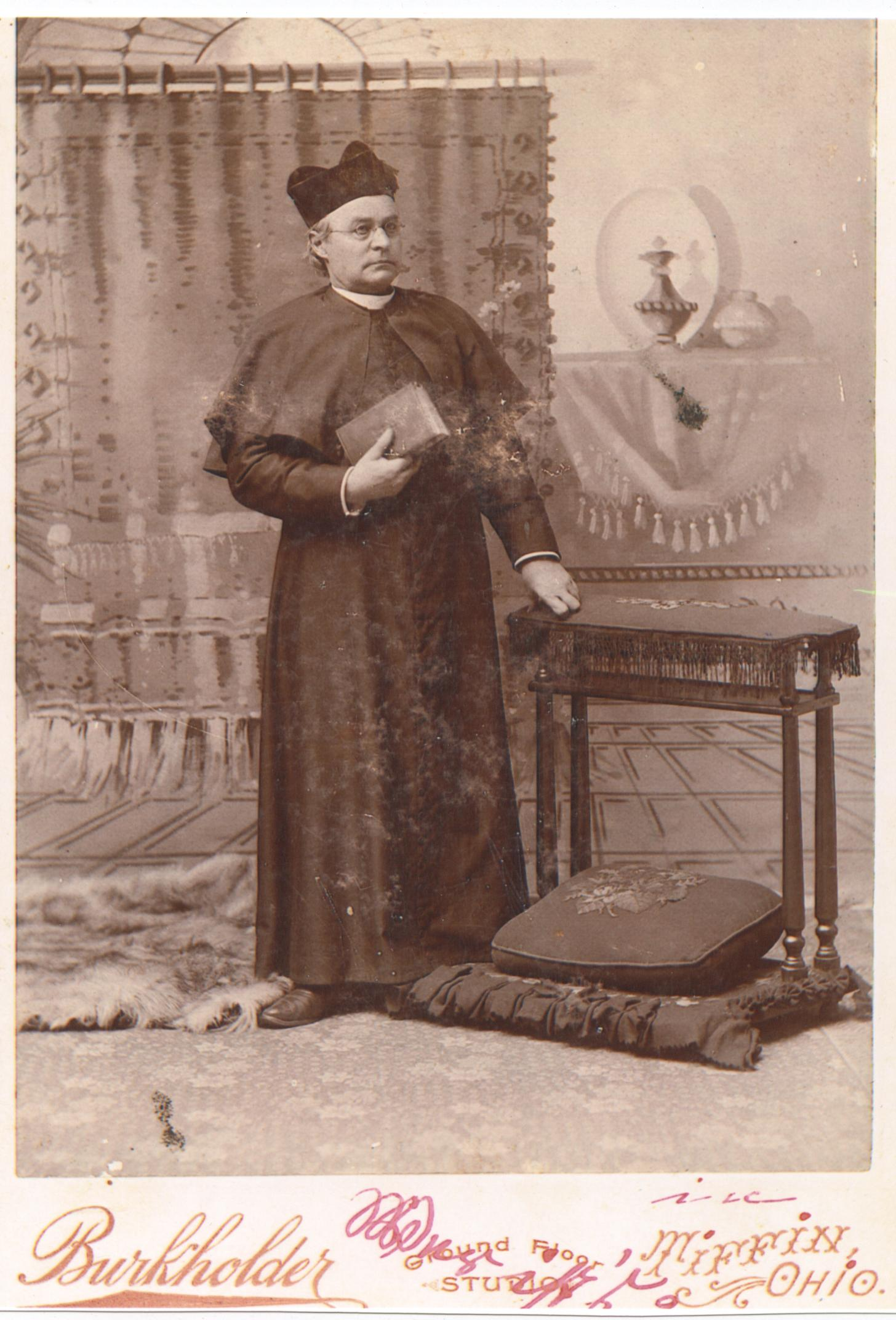 Fr. Joseph Bihn, 1875